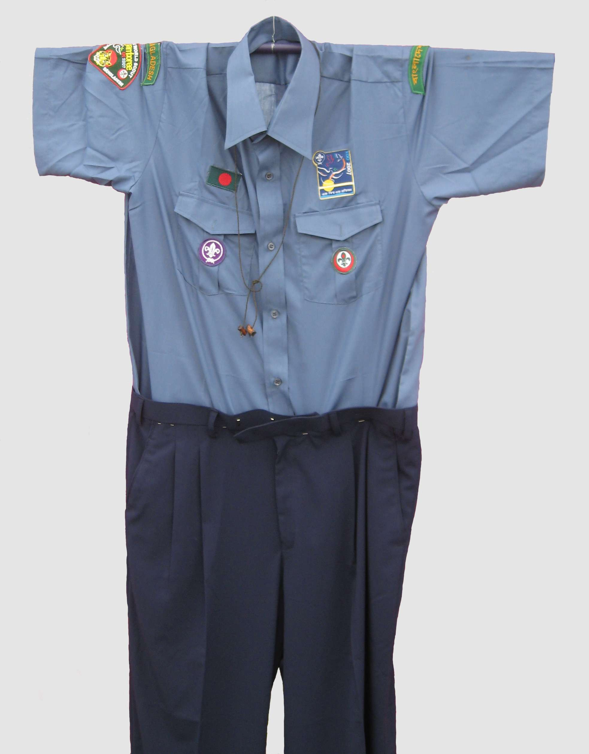 Bengali Scout uniform on exhibition during the 21st World Scout Jamboree 2007